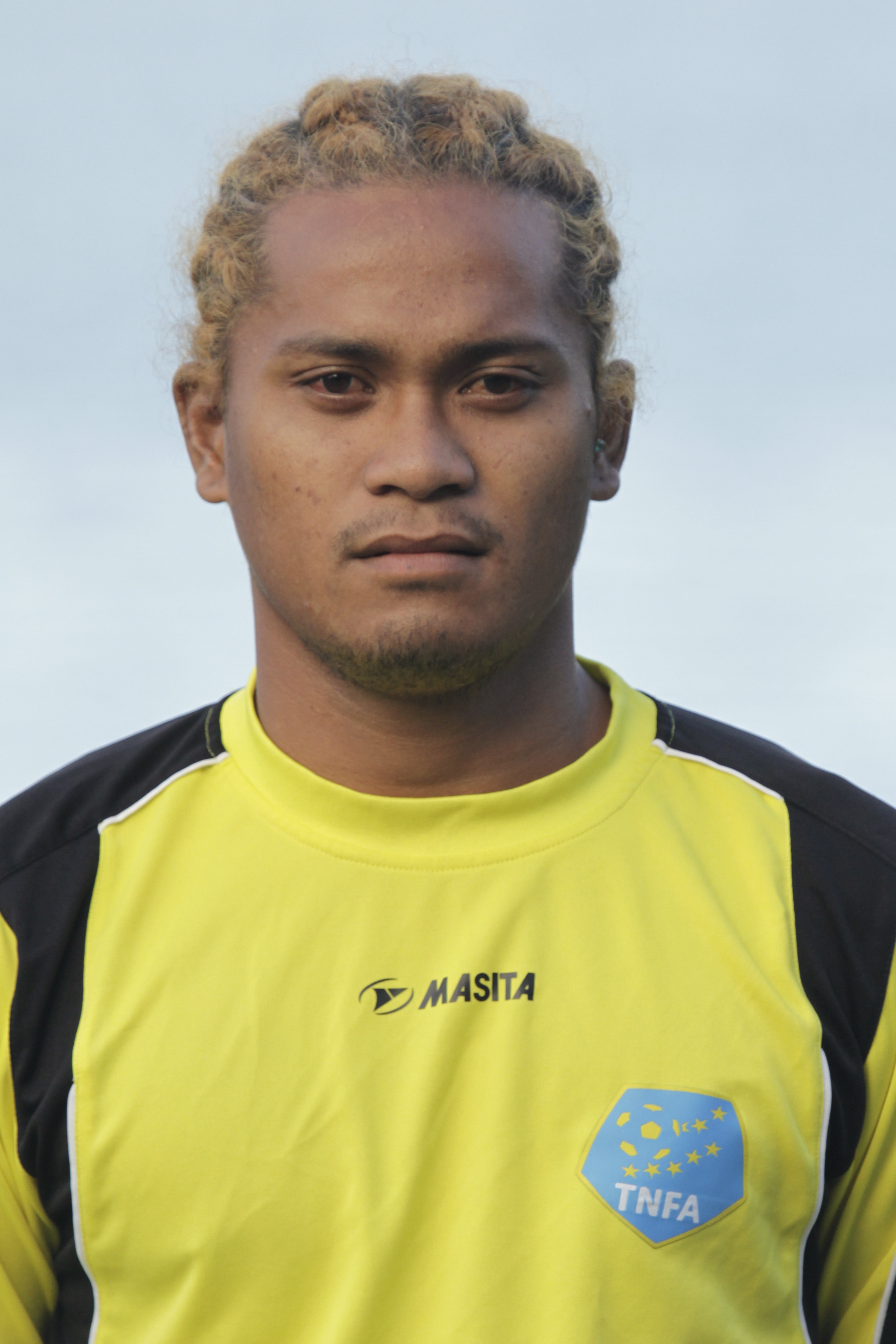 Faiana_Ofati 02